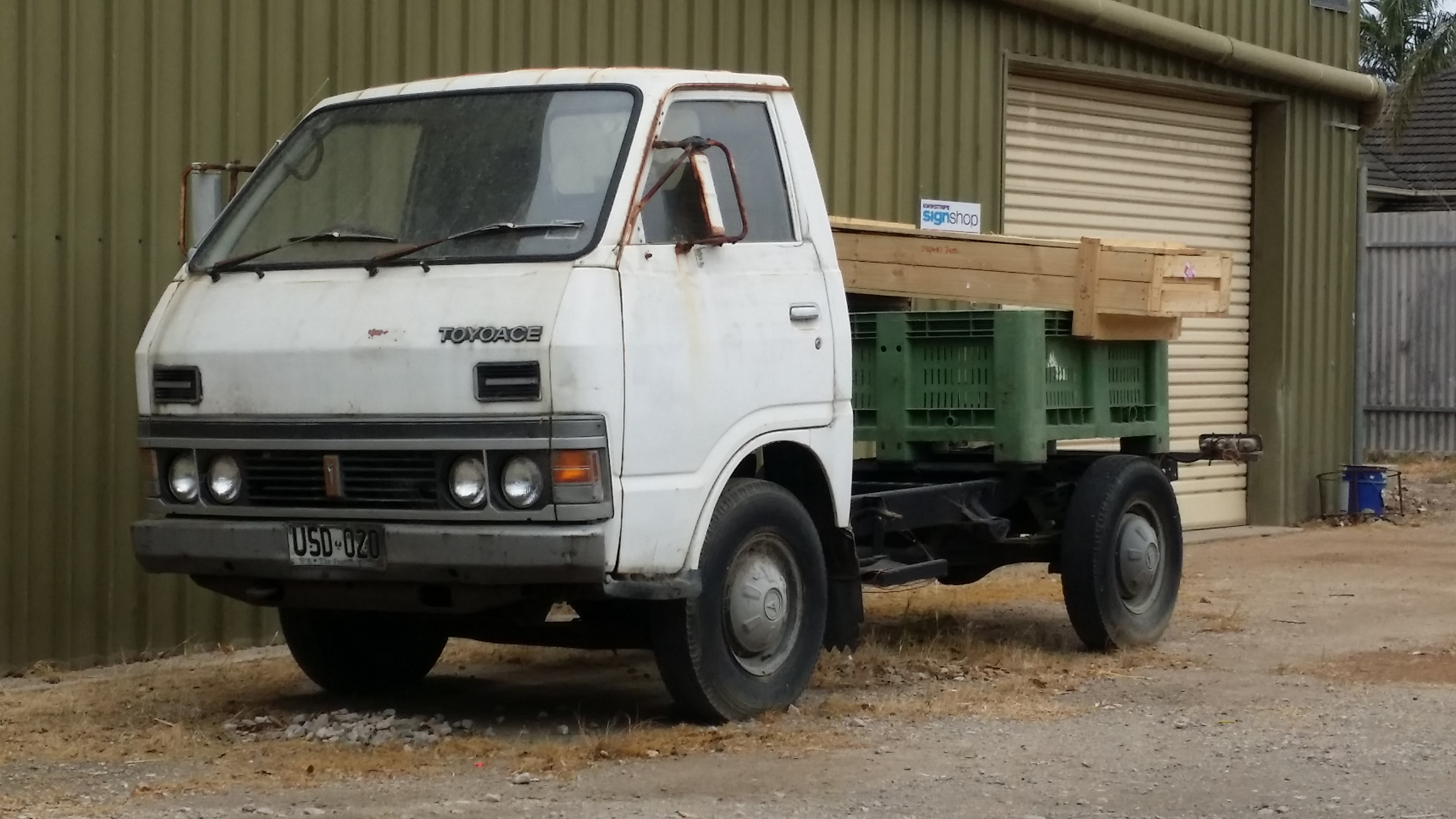 Toyota ToyoAce Truck